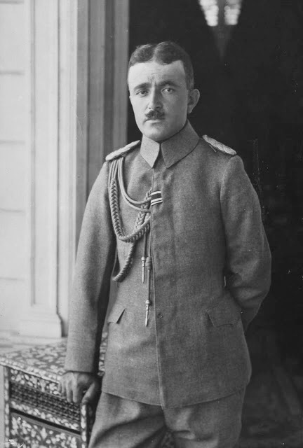 Ismail Enver Pasha (1881-1922)